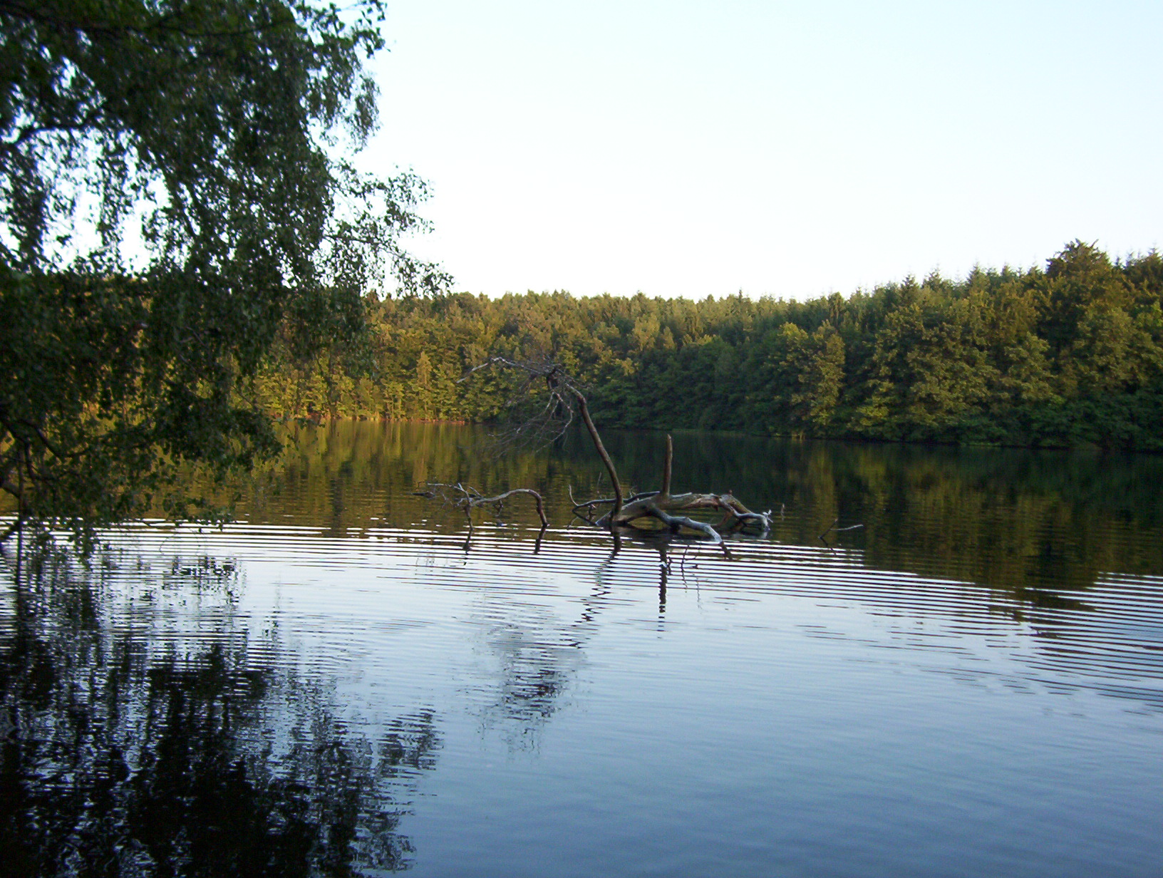 The Pinnsee lake near Mölln in Schleswig-Holstein, Germany